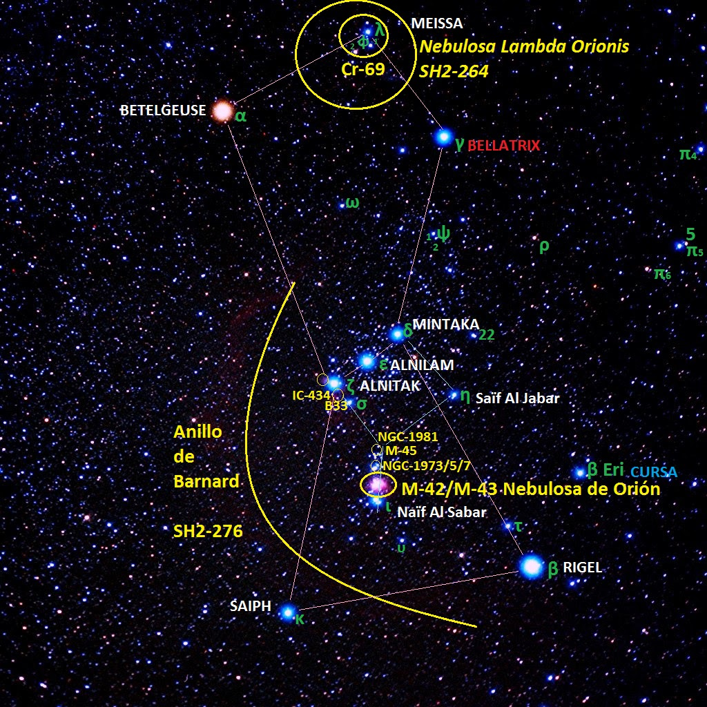 OB1 ORION Stellar asociation